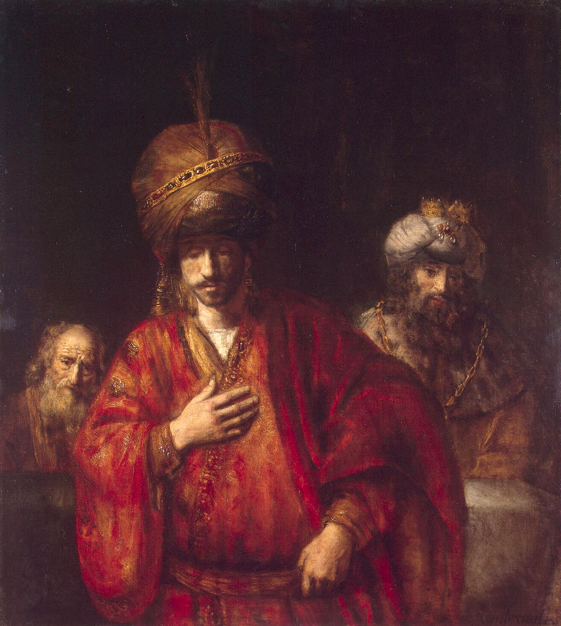 David and Uriah, Hermitage, 127 x117